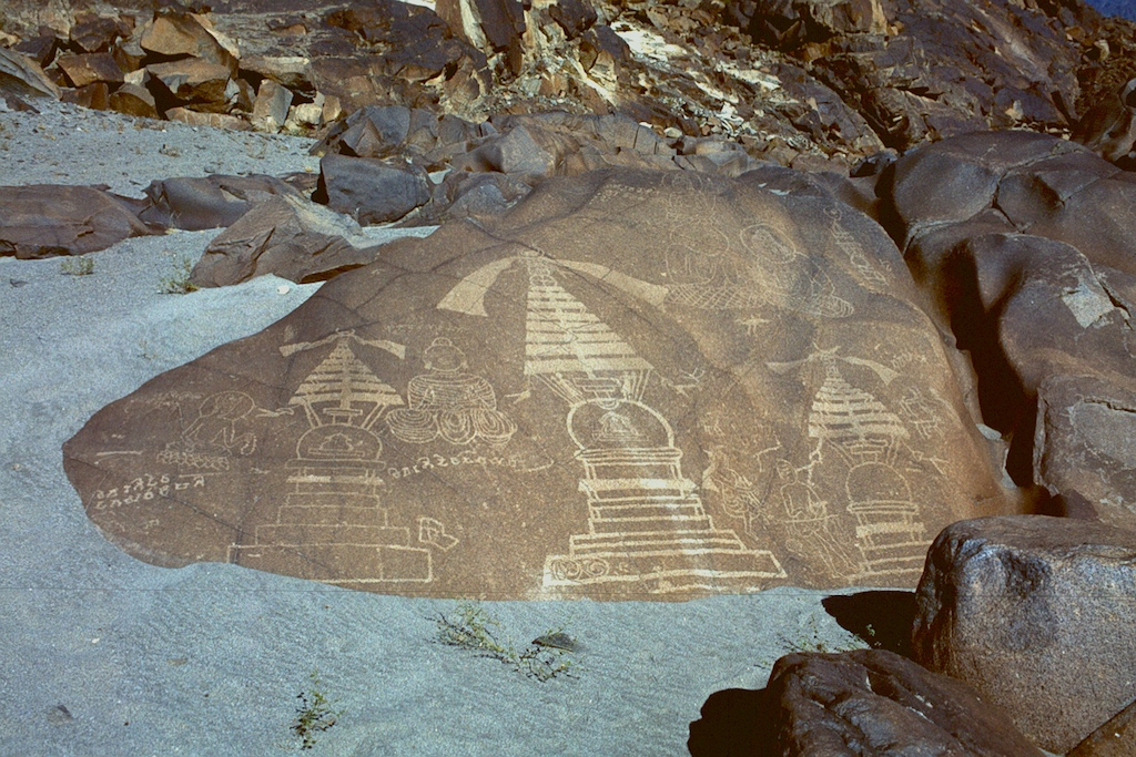 Rock carvings along KKH near Chilas. Dated "between A.D. 300-350 based on Kharosthi, Brahmi, and Sodian inscriptions written before and after the drawing was completed (fig.3) In the center of the triptych, a spectacular stupa with a relatively small dome [anda], a chattravali with seven disks, columns, banners, and multiple bells illustrates a trend towards decorative profusion." (2002). "Chital petroglyphs". Bulletin of the Asia Institute: 152. Wayne State University Press.